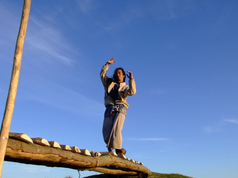 Takenouchi San performing on Hambledon Hill, Dorset.